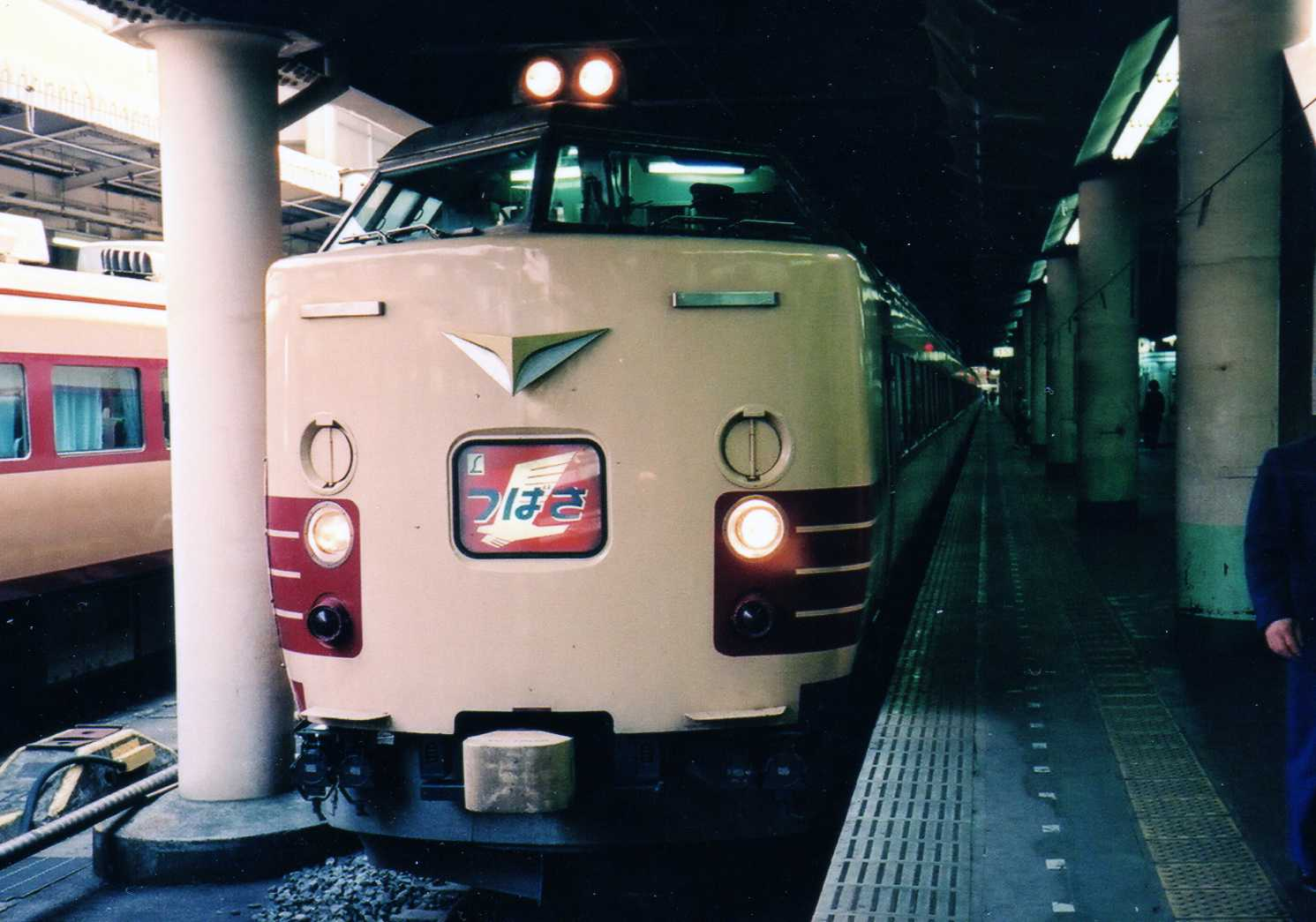 JR East 485-1500 series EMU on a Tsubasa limited express service at Ueno Station in Tokyo, Japan